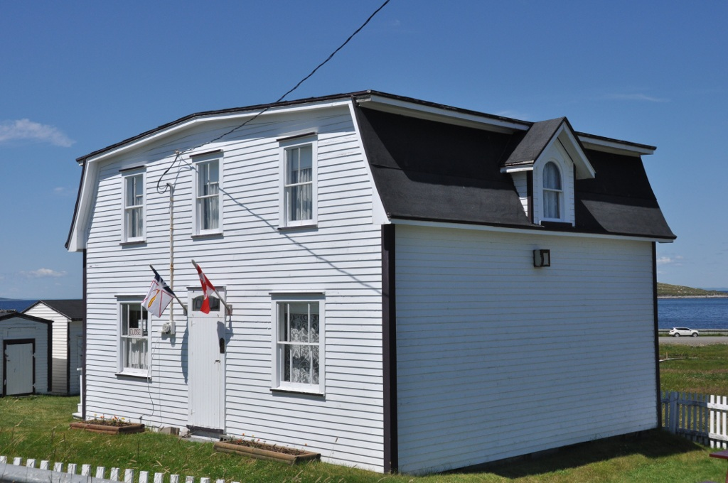 Beckett Property, Old Perlican, Newfoundland.